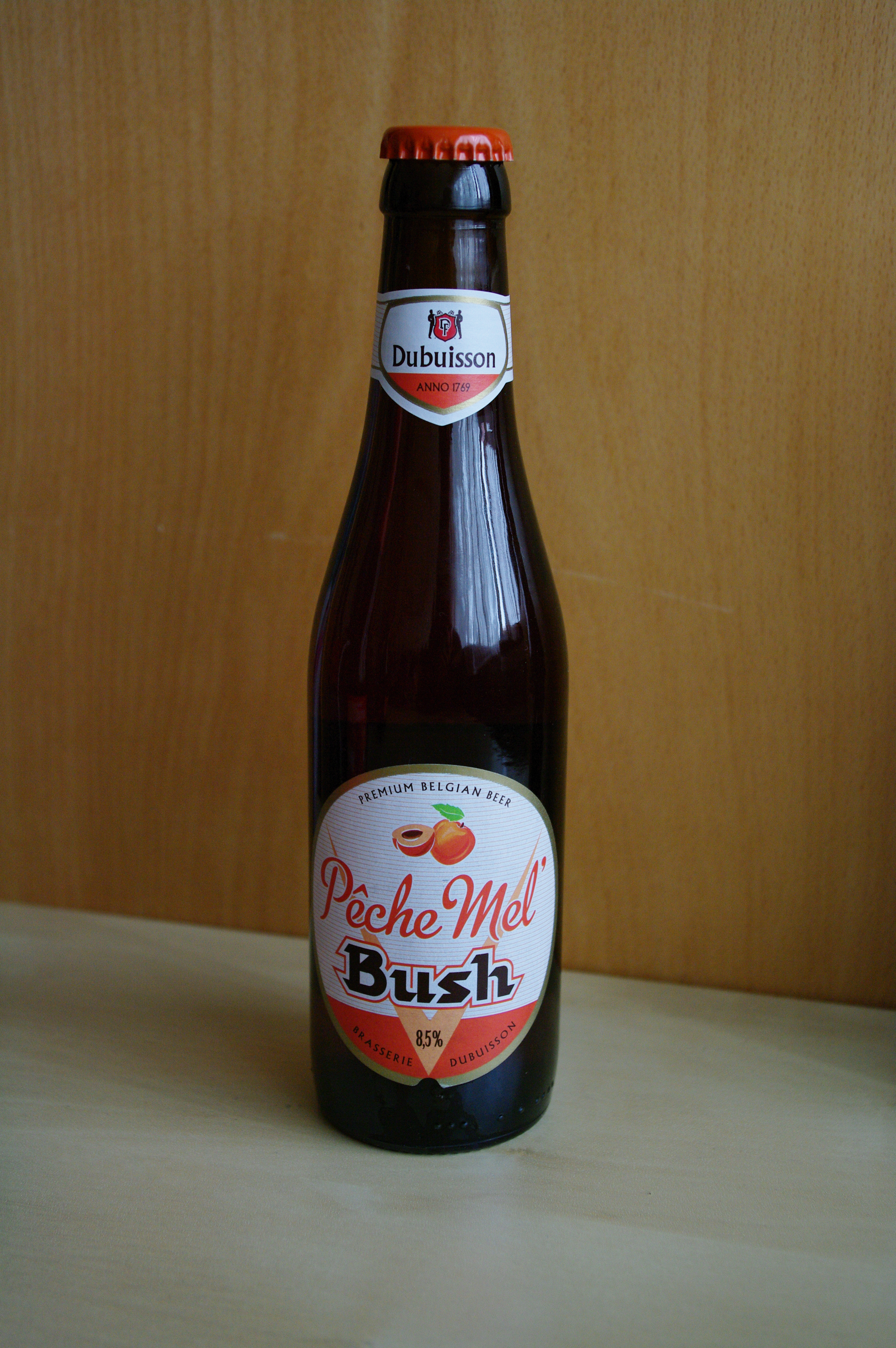 Bush Peche Mel beer